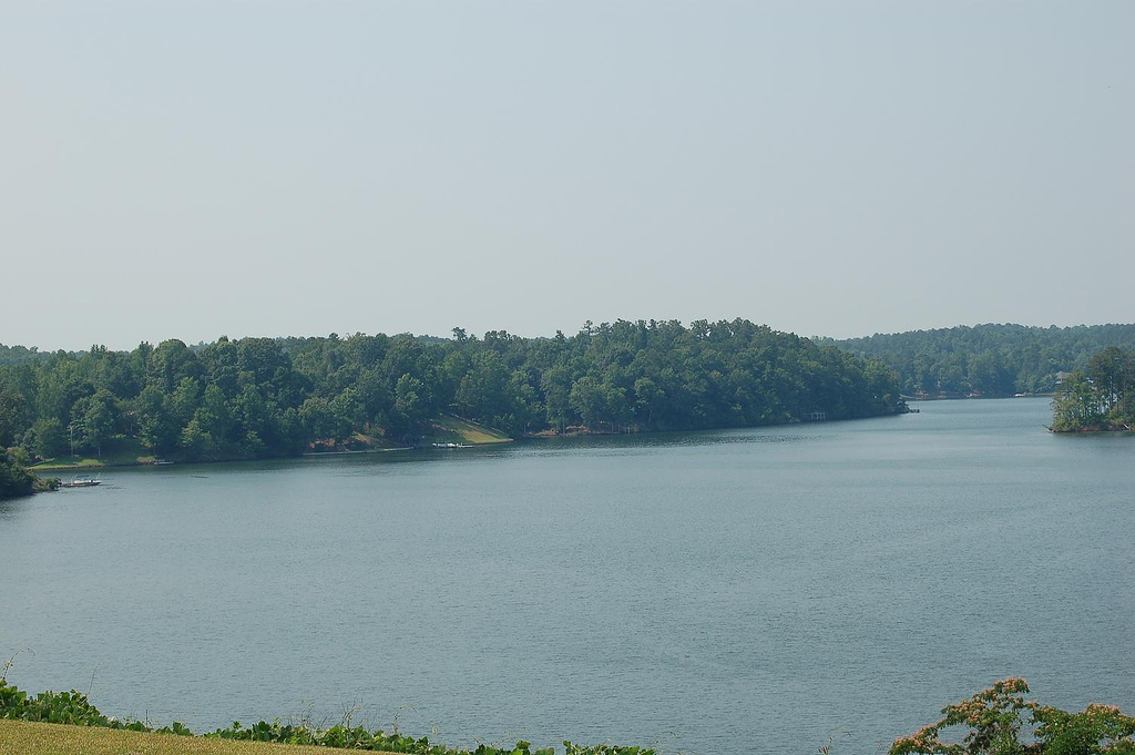 La rivière Tallapoosa (Alabama) View of Tallasee Lake from Thurlow Dam